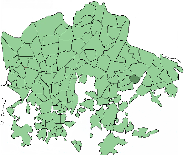 A map of Helsinki highlighting Puotila